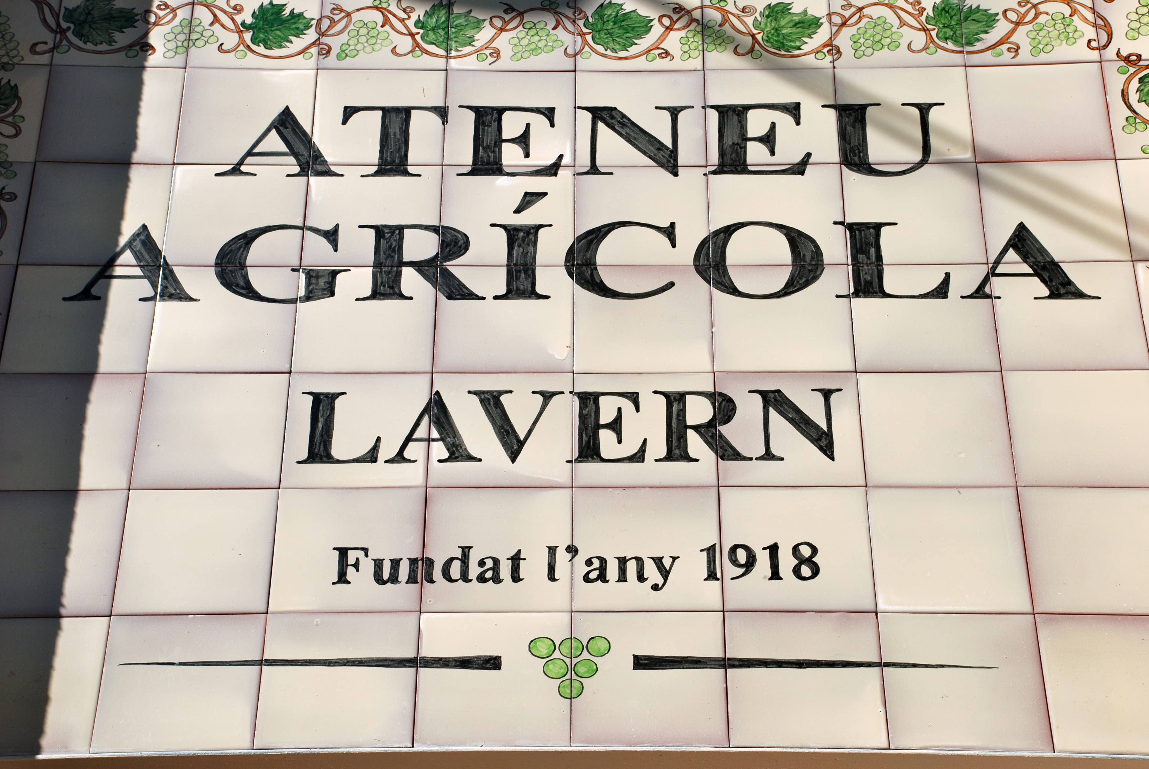 Local culture assotiation